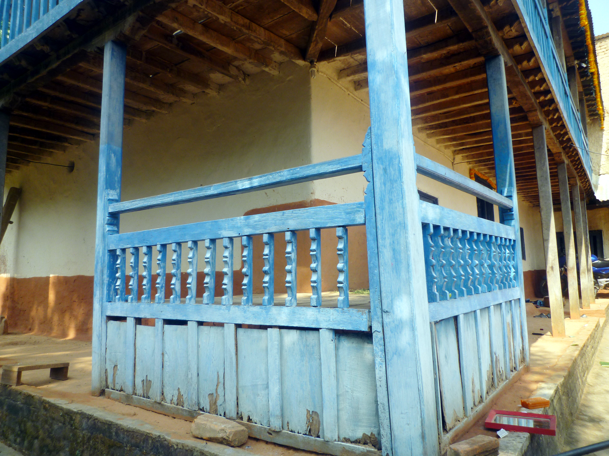 Its a place for resting in a typical Nepali house.